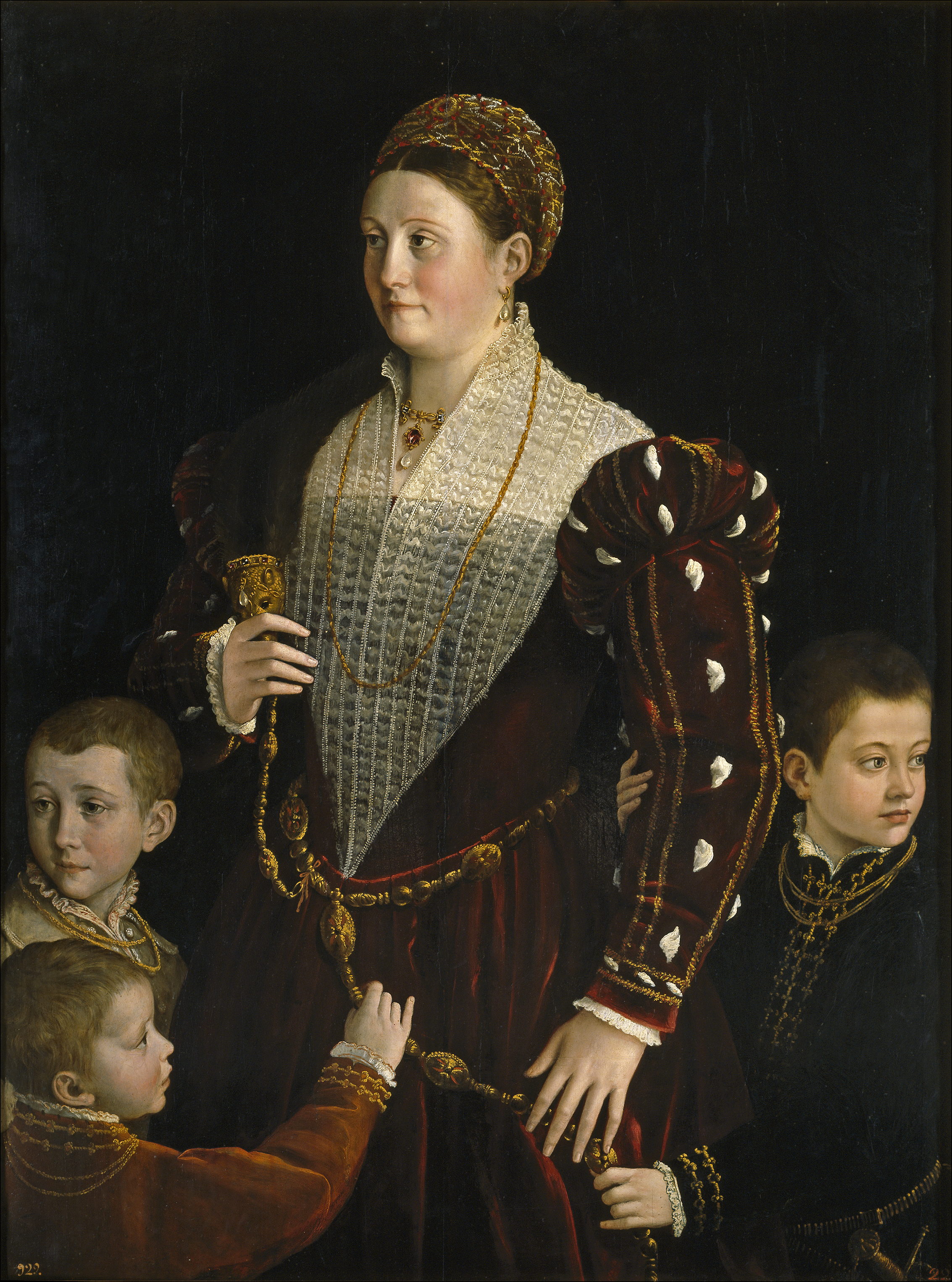 Camilla Gonzaga with three of the six sons she had by the Count of San Secondo, possibly Troilo, Hipólito and Federico.